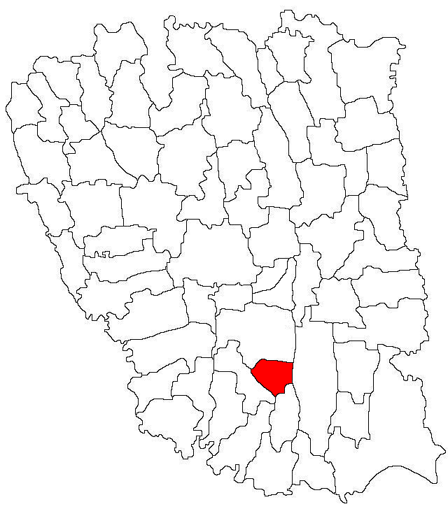 Limits of Cuza Voda Commune in Galati County